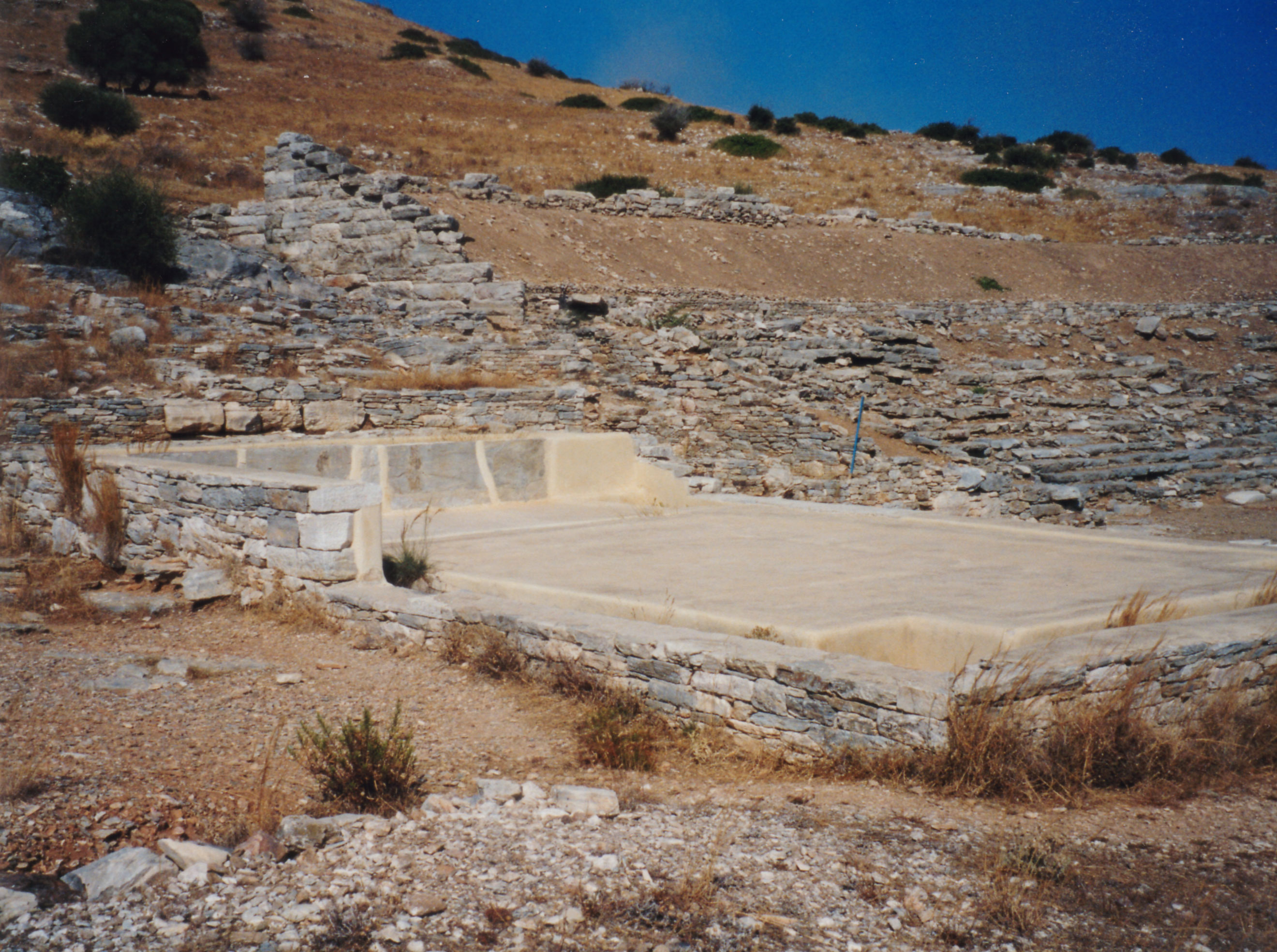 Ruins in Thoricos, Attica, Greece. Egad it's embarrassing when you can't quite remember the name of the thing you're looking at. It's another angle of the place where they separated silver from lead.